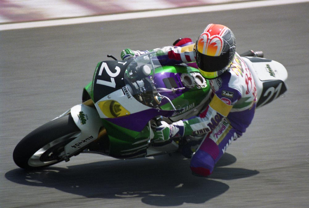 Yasutomo Nagai at 1993 Suzuka 8hours